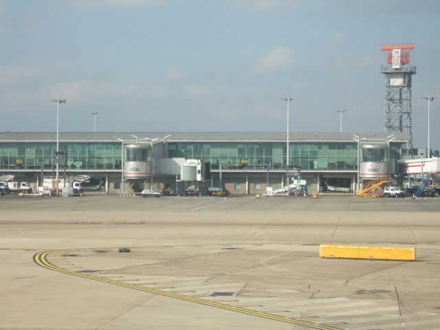 Airside Terminal 1. Heathrow Terminal 1, looking North West